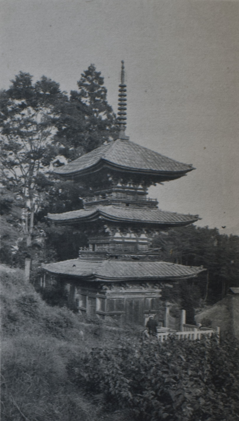 Daihoji, Nagano, Japan